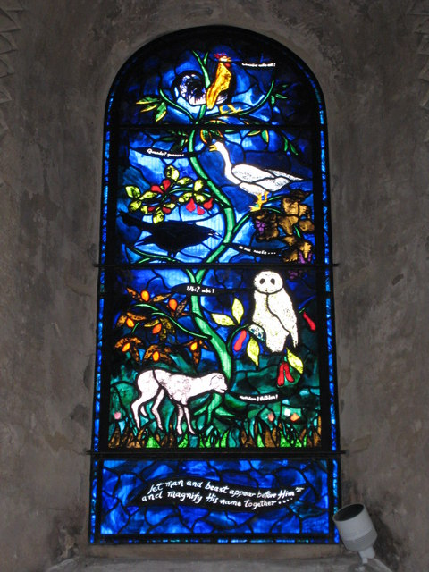 Stained glass window in St Mary the Virgin parish church, Iffley, Oxfordshire, made in 1995. The main part of the window was designed and made by John Piper. It shows birds and a lamb in and around a Tree of Life, speaking on Christmas Eve to announce the birth of Jesus Christ. The bottom panel with the inscription, and the thin blue border around the window, were designed and made by David Wasley to fit the frame.